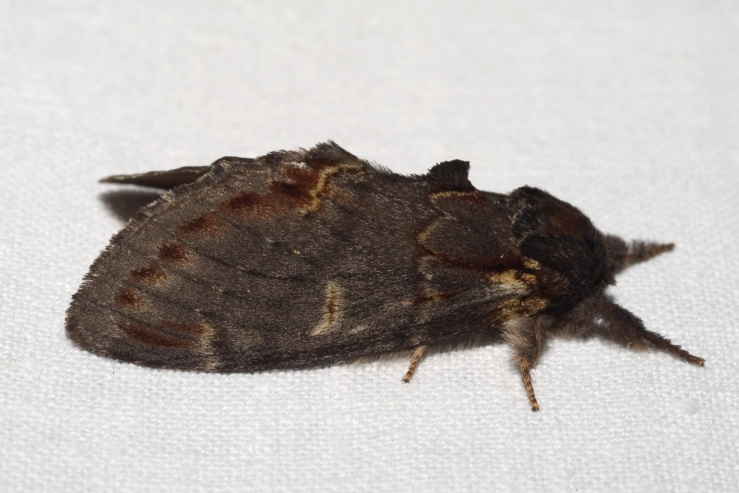 Please report references to kulacgmx.at.